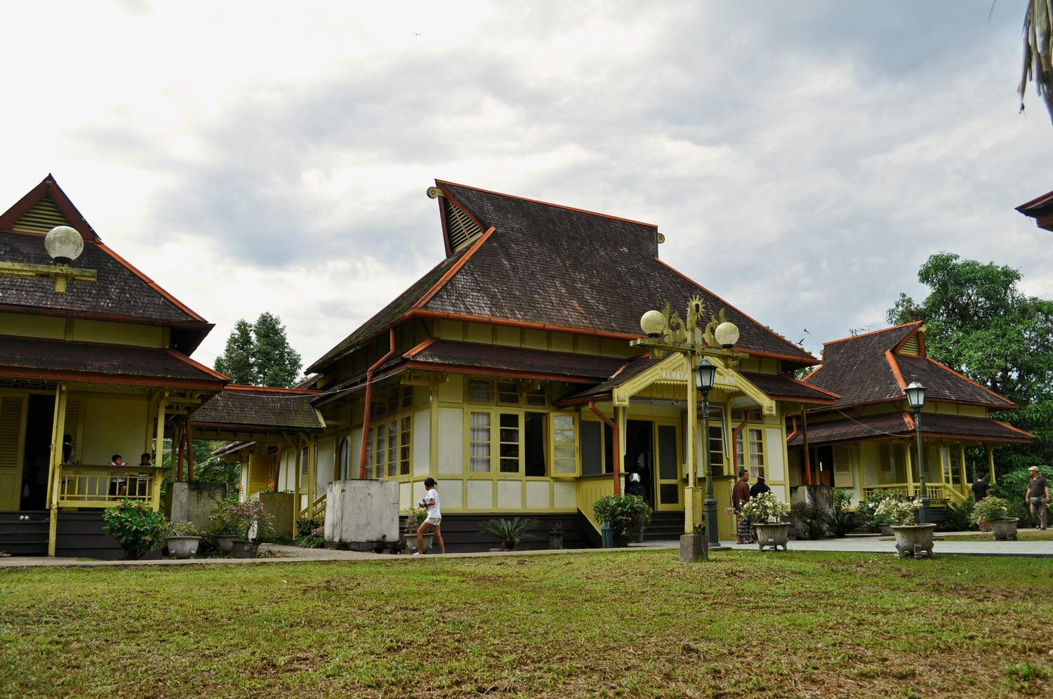 Sambas sultanate palace